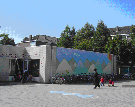 Een foto van de kleuterafdeling van het Cheider in Amsterdam.